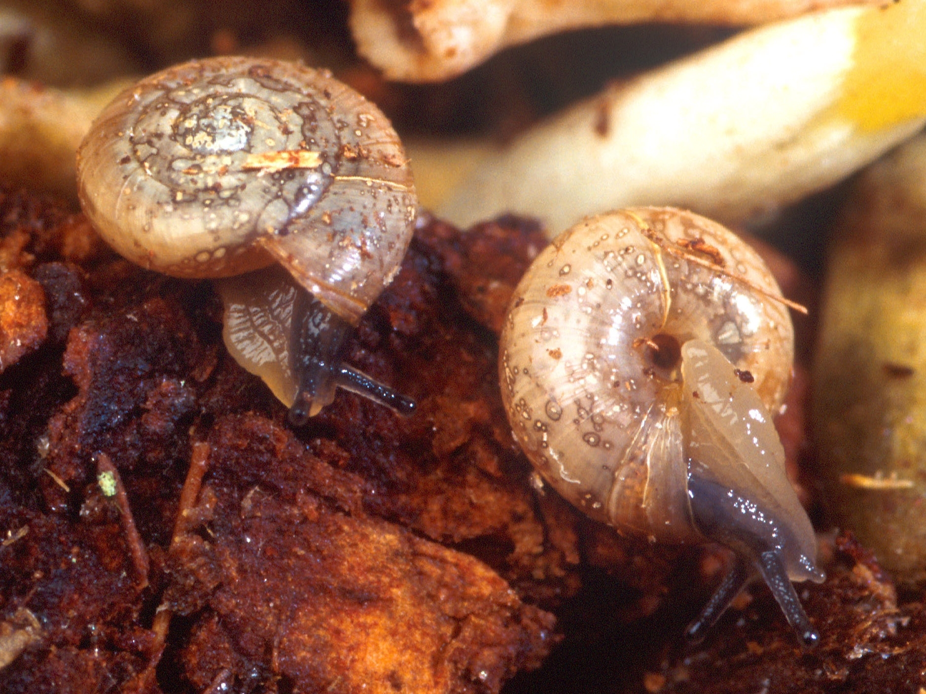 quick gloss - Zonitoides arboreus (Say, 1816) - Adults at orchids. Photo taken in the United States